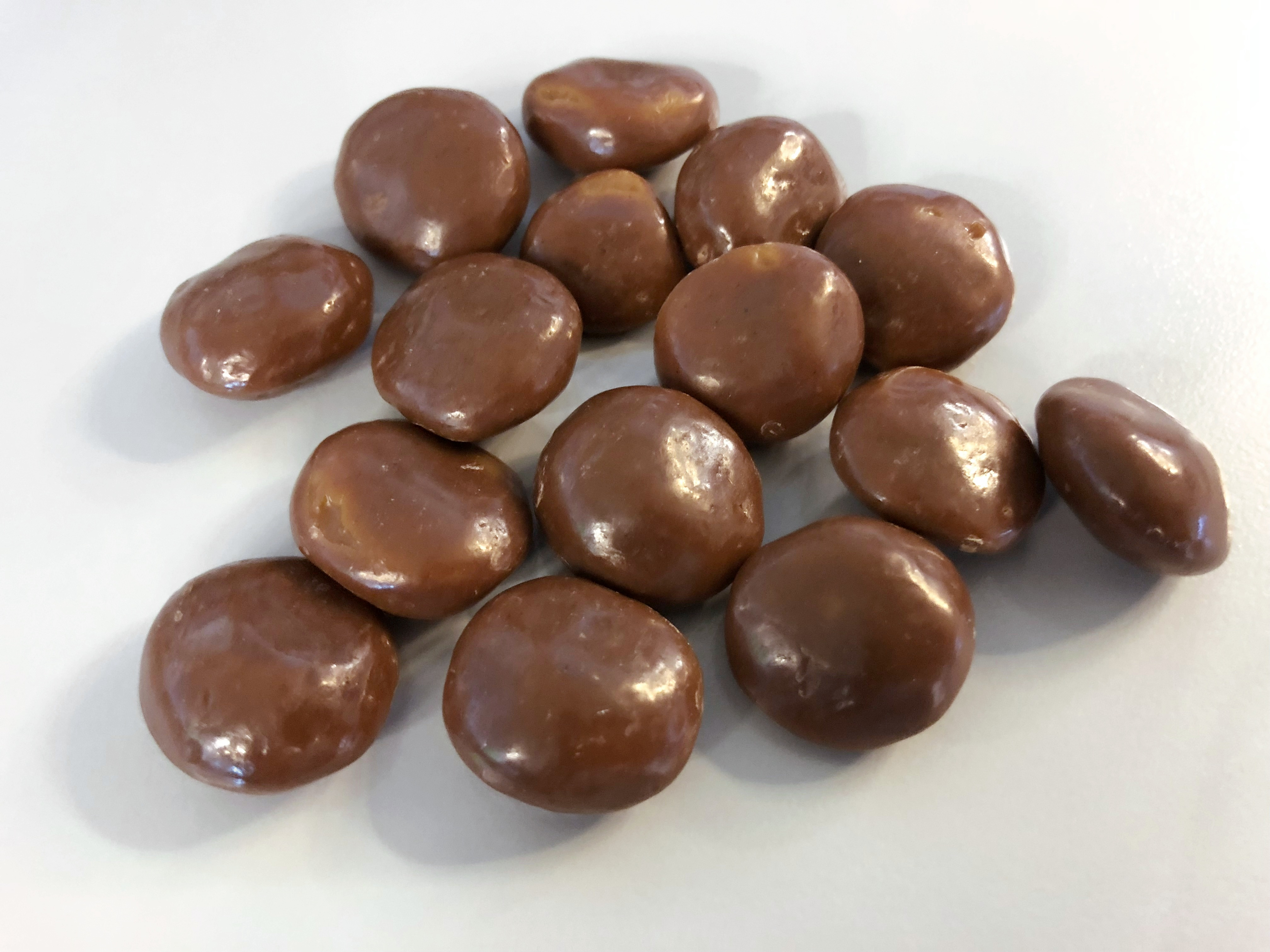 Milk Duds in the Dulles section of Sterling, Loudoun County, Virginia